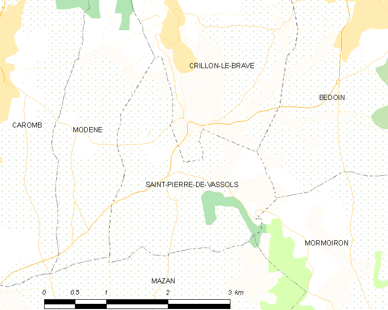 Map of French municipality Saint-Pierre-de-Vassols